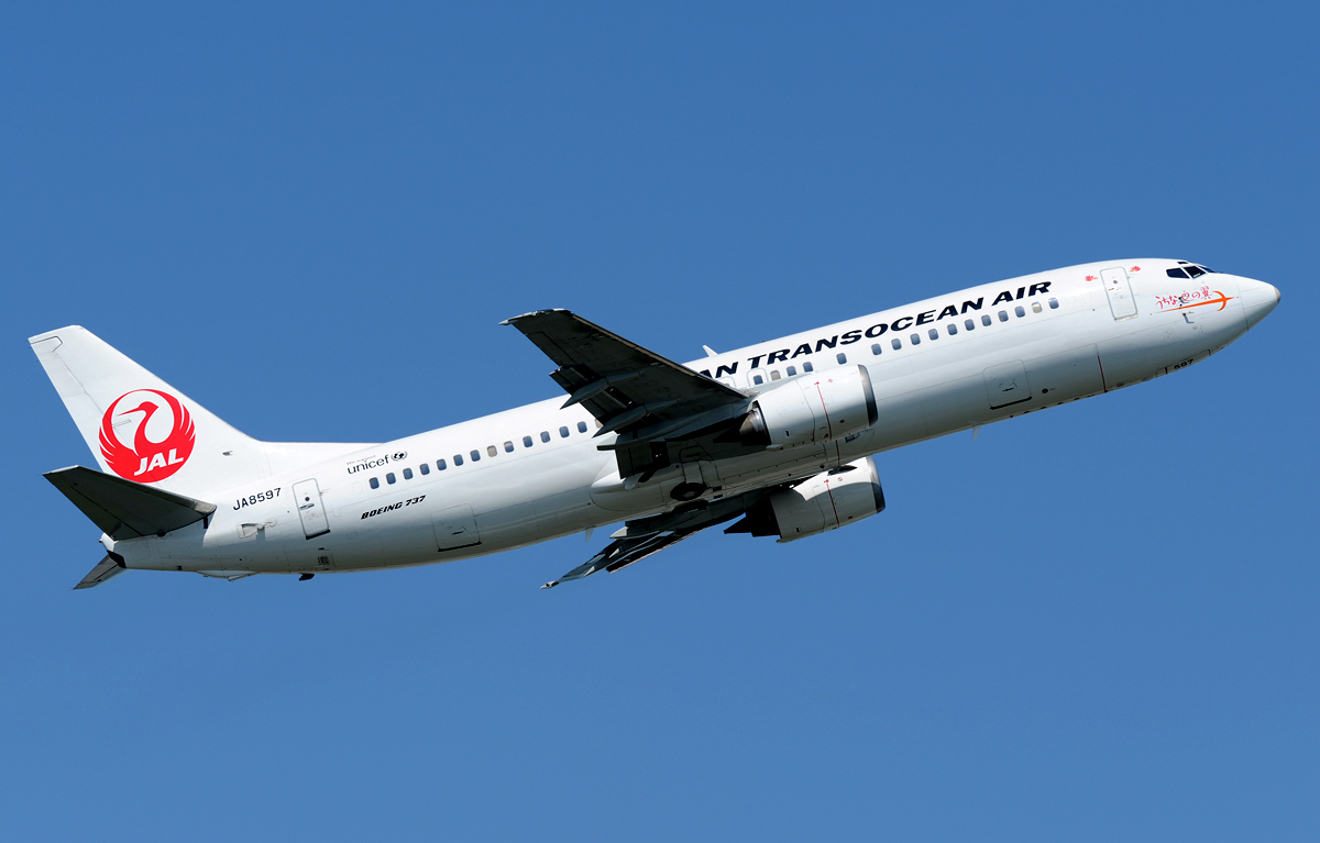 Japan Transocean Air Boeing 737-400